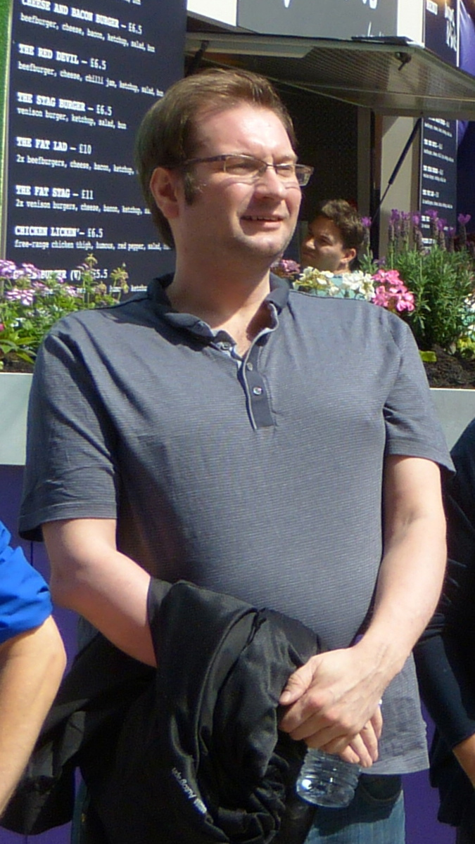 crop of Gary Delaney from photo with Aisling Bea, David O'Doherty, Ed Byrne, Jenny Éclair, and Ben Van de Velde